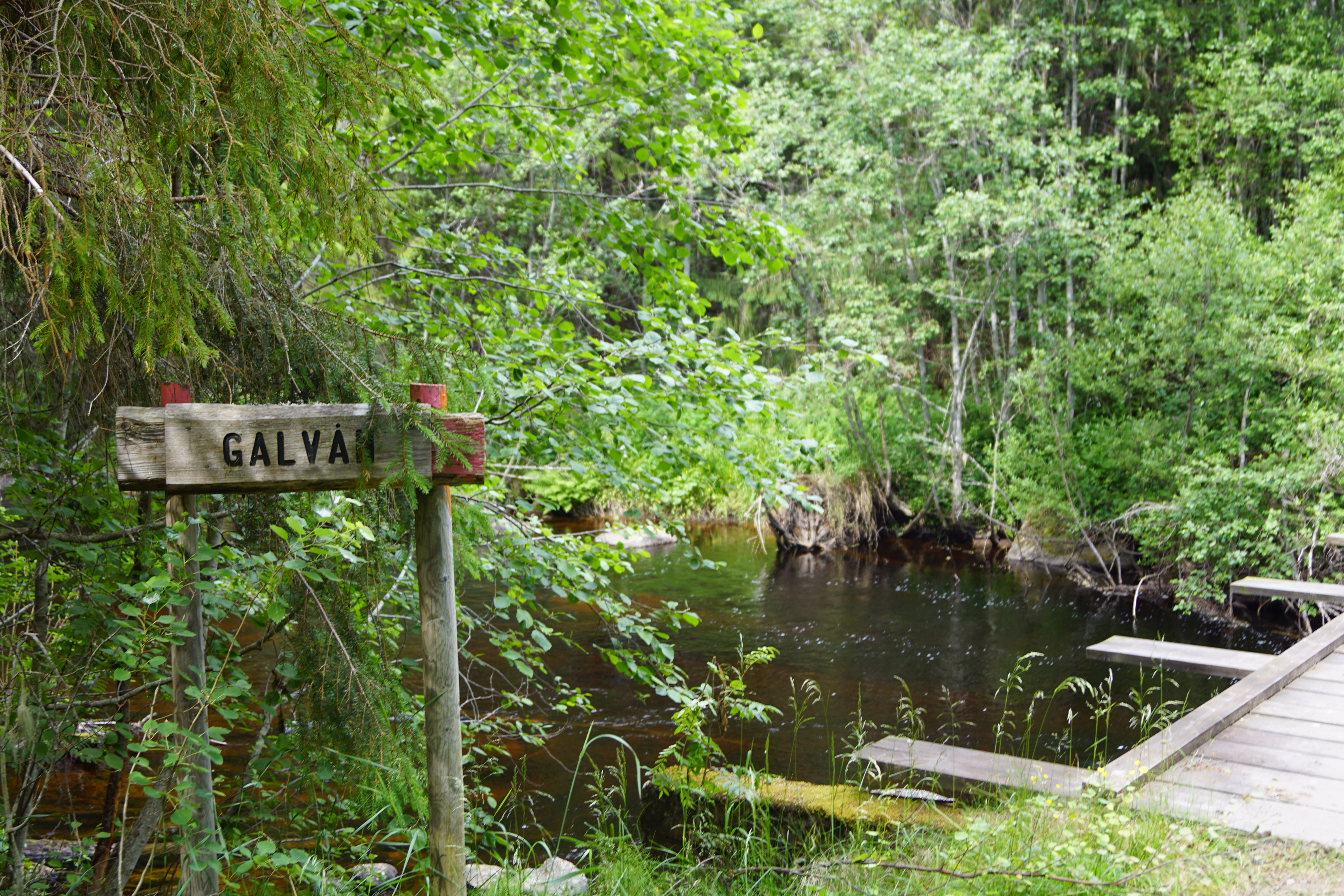 A stream and nature reserve i Bollnäs Municipality, Sweden.